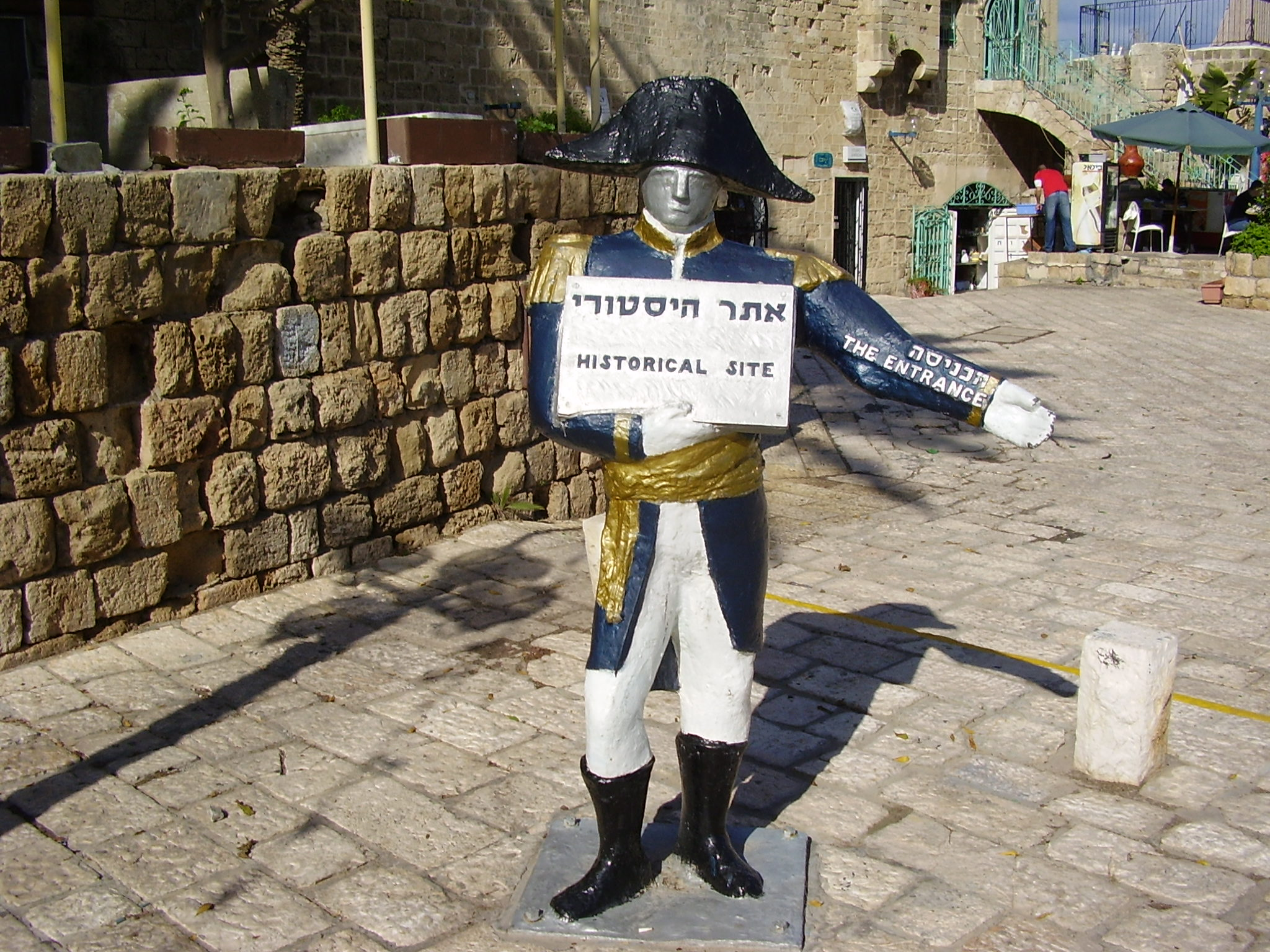 A statue of a french soldier, Old Jaffa, Israel.